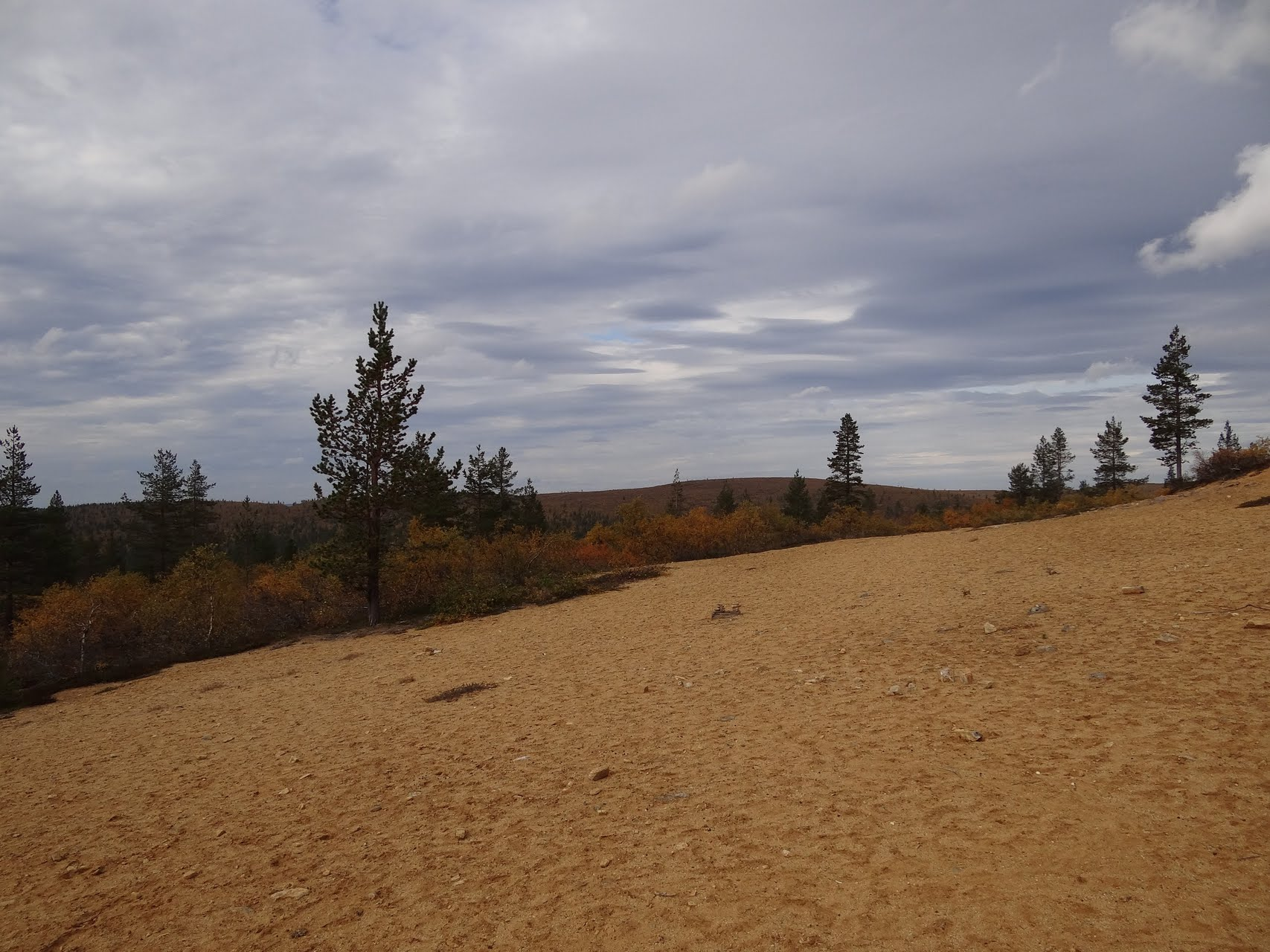 Kiilopää 2011